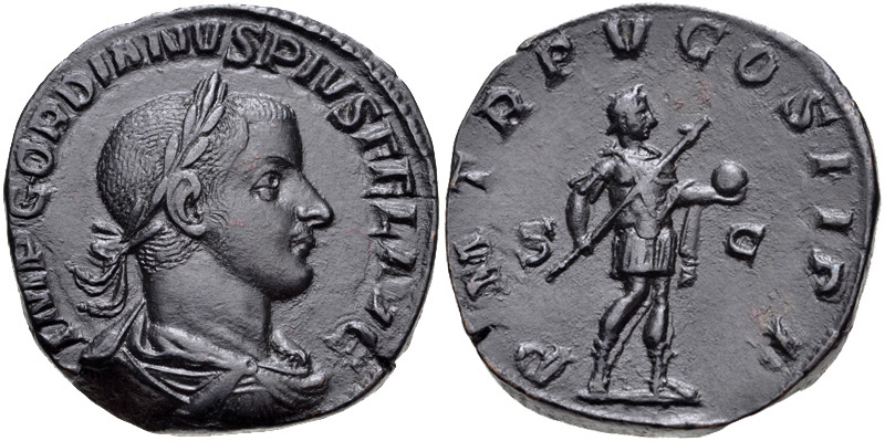 Gordian III. AD 238-244. Æ Sestertius (28mm, 17.86 g, 12h). Rome mint, 6th officina. 10th emission, AD 242. Laureate, draped, and cuirassed bust right Gordian standing right, holding transverse spear and globe. RIC IV 307a; Banti 75.